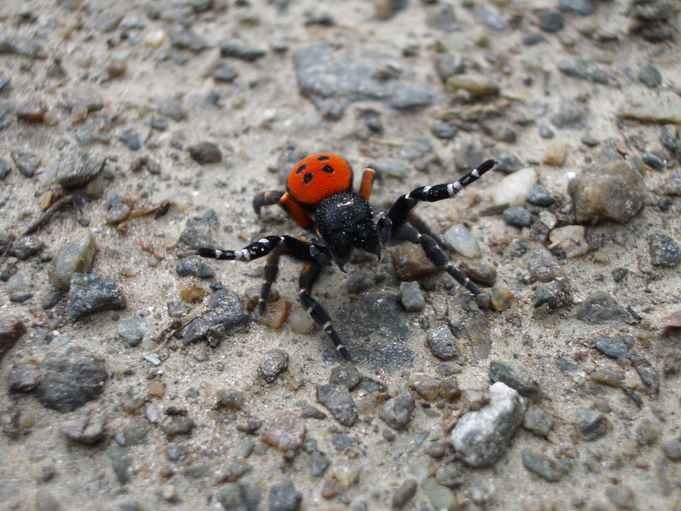 Eresus kollari